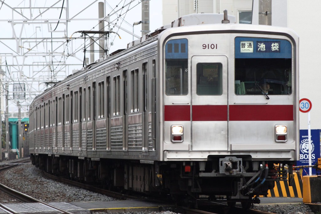 Tobu 9000 series EMU set 9101 on a Tobu Tojo Line local service for Ikebukuro between Narimasu and Shimo-Akatsuka